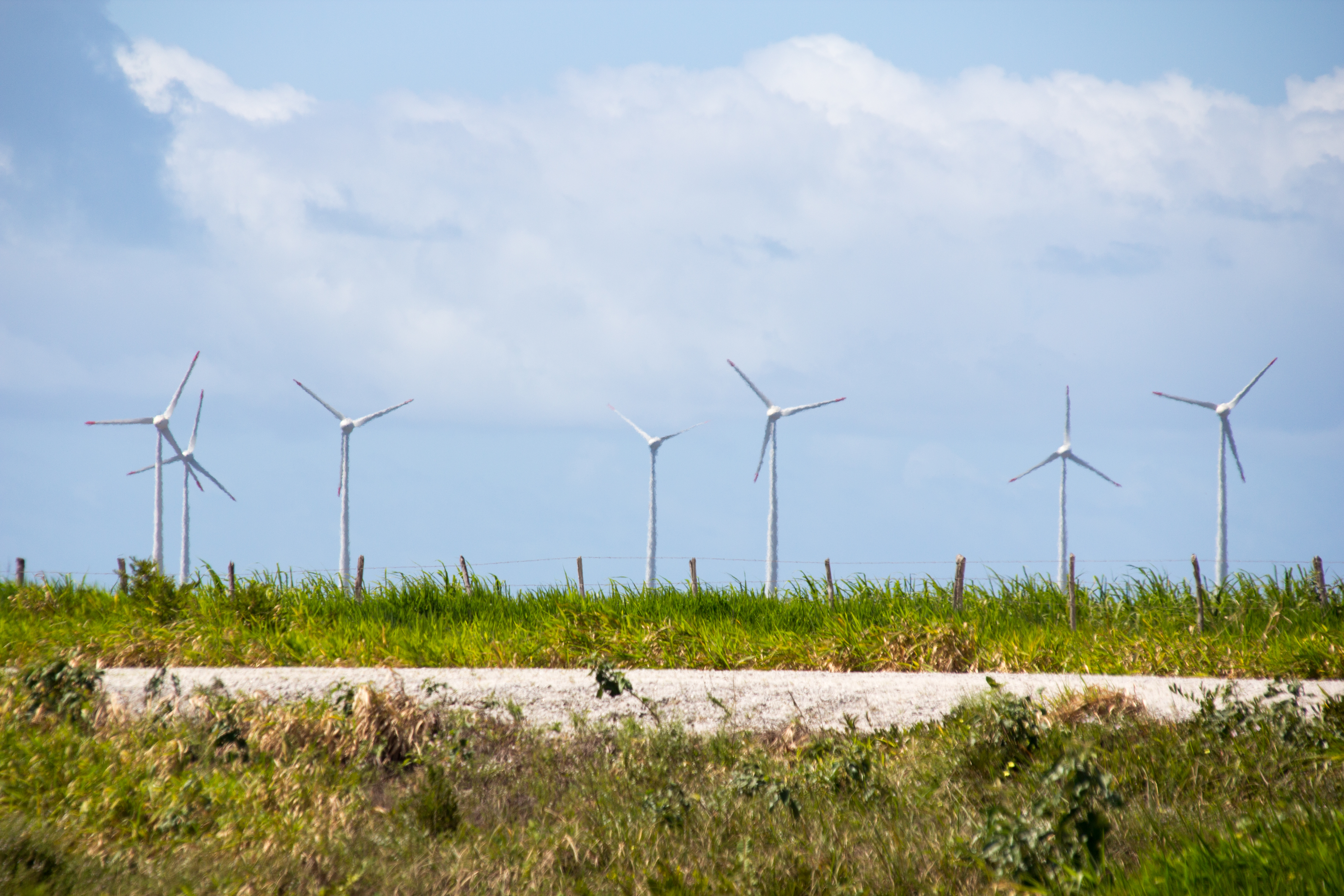 Central Eólica Vitória, Paraiba, Brazil Eolica Witoria